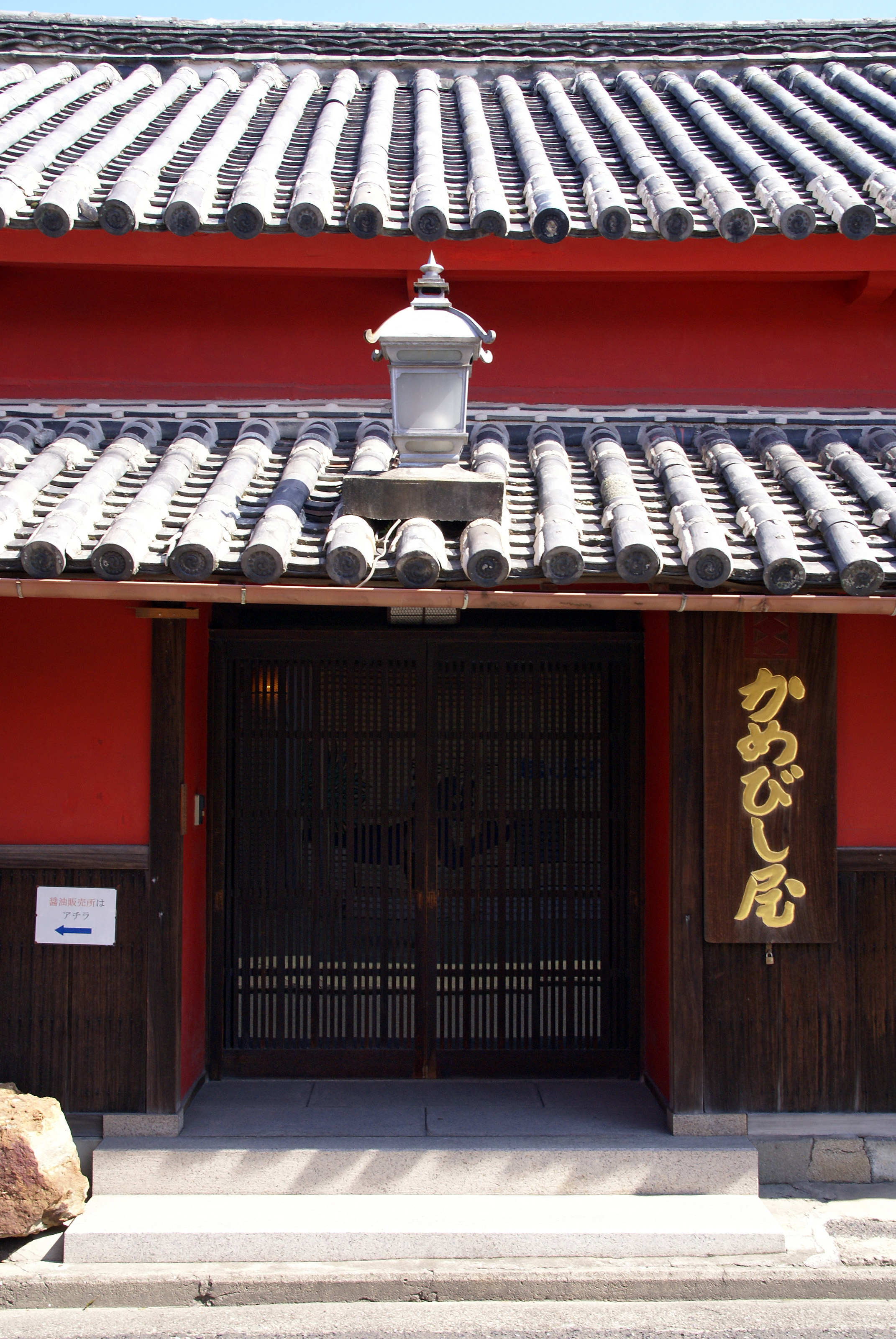 Kamebishi-ya in Hiketa, Higashikagawa, Kagawa prefecture, Japan